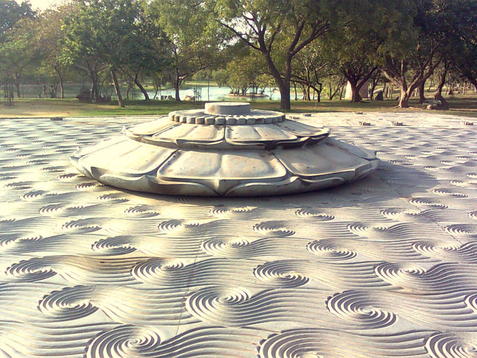 Memorial of Rajiv Gnadhi near Raj Ghat in New Delhi.